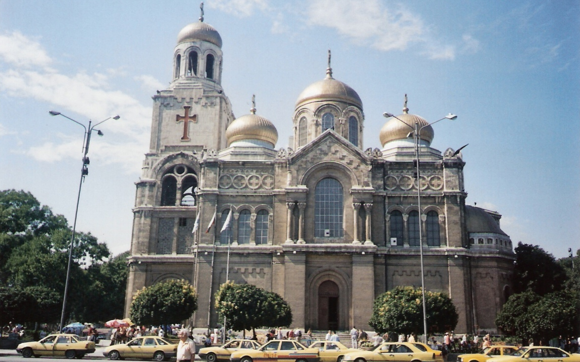 cathedral-varna,bulgaria